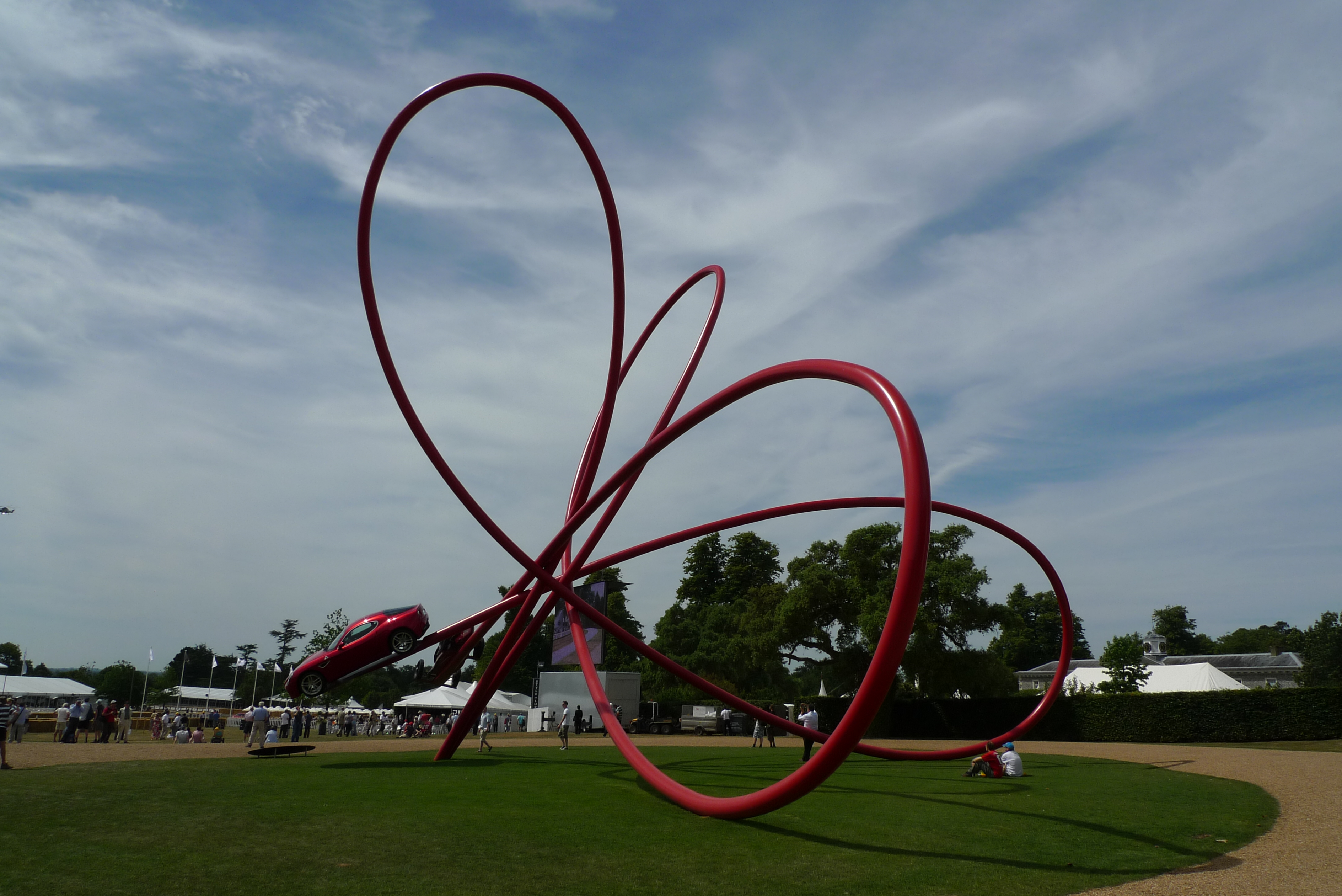 Alfa Romeo 100 Years sculpture Goodwood 2010